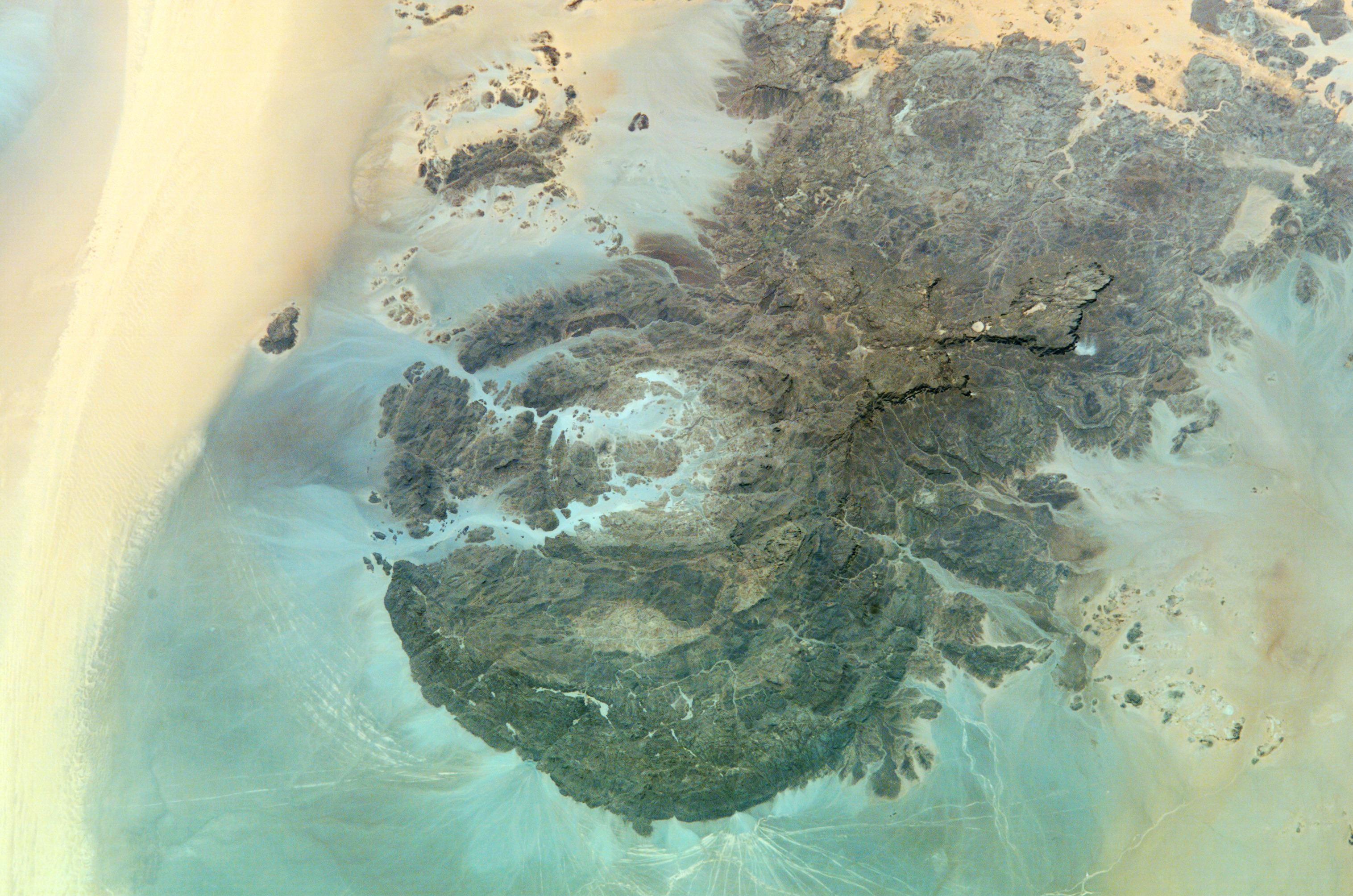 Identification Mission: ISS004 Roll: E Frame: 13542 Mission ID on the Film or image: ISS004 Country or Geographic Name: SUDAN Features: MT. UWEINAT, WIND STREAKS Center Point Latitude: 22.0 Center Point Longitude: 25.0 (Negative numbers indicate south for latitude and west for longitude) Stereo: (Yes indicates there is an adjacent picture of the same area) ONC Map ID: JNC Map ID: Camera Camera Tilt: Low Oblique Camera Focal Length: 240mm Camera: E4: Kodak DCS760C Electronic Still Camera Film: 3060E : 3060 x 2036 pixel CCD, RGBG array. Quality Film Exposure: Percentage of Cloud Cover: 10 (0-10)